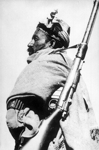 A member of the Khyber Rifles, 1946. Photograph by Major A G Harfield, Khyber Rifles, 1946. The Khyber Rifles were one of several paramilitary police units recruited from the tribesmen of the North West Frontier. They served as auxiliaries to the regular Indian Army. Raised in the early 1880s and recruited from Afridi Pathan tribesmen, the Rifles were commanded by British officers on secondment from regular Indian regiments. When Pakistan won its independence in 1947 the Rifles became part of the new country's Frontier Corps. Today the Khyber Rifles are engaged in tracking down Taleban insurgents and Islamic terrorists in the tribal areas bordering Afghanistan. From a collection of photographs by Maj A G Harfield, Khyber Rifles, 1946. NAM Accession Number NAM. 1973-10-40-8 Copyright/Ownership National Army Museum Copyright Location National Army Museum, Study Collection